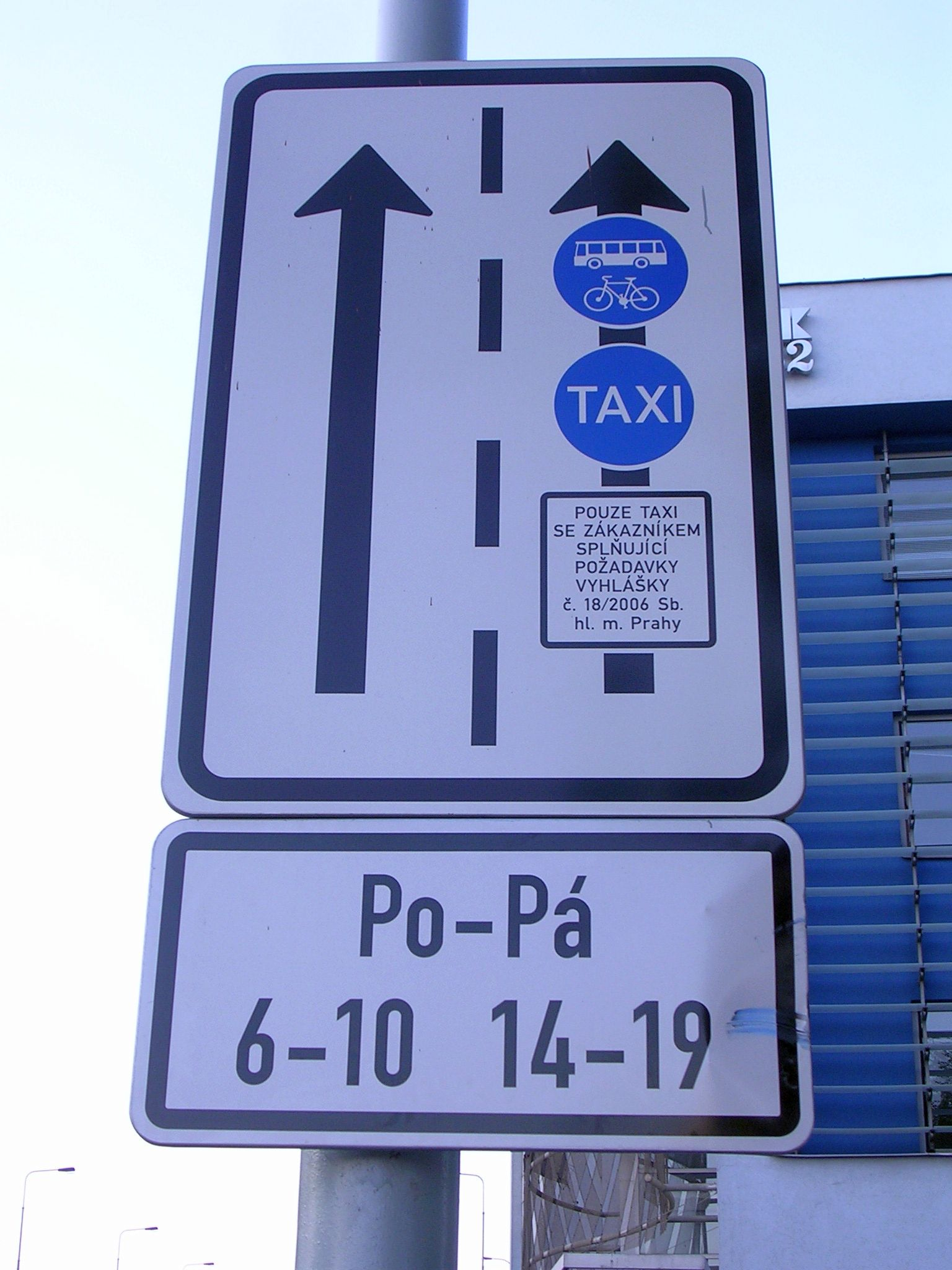 Michle, Prague, the Czech Republic. Bohdalecká street. A bus, cycle and taxicab lane.